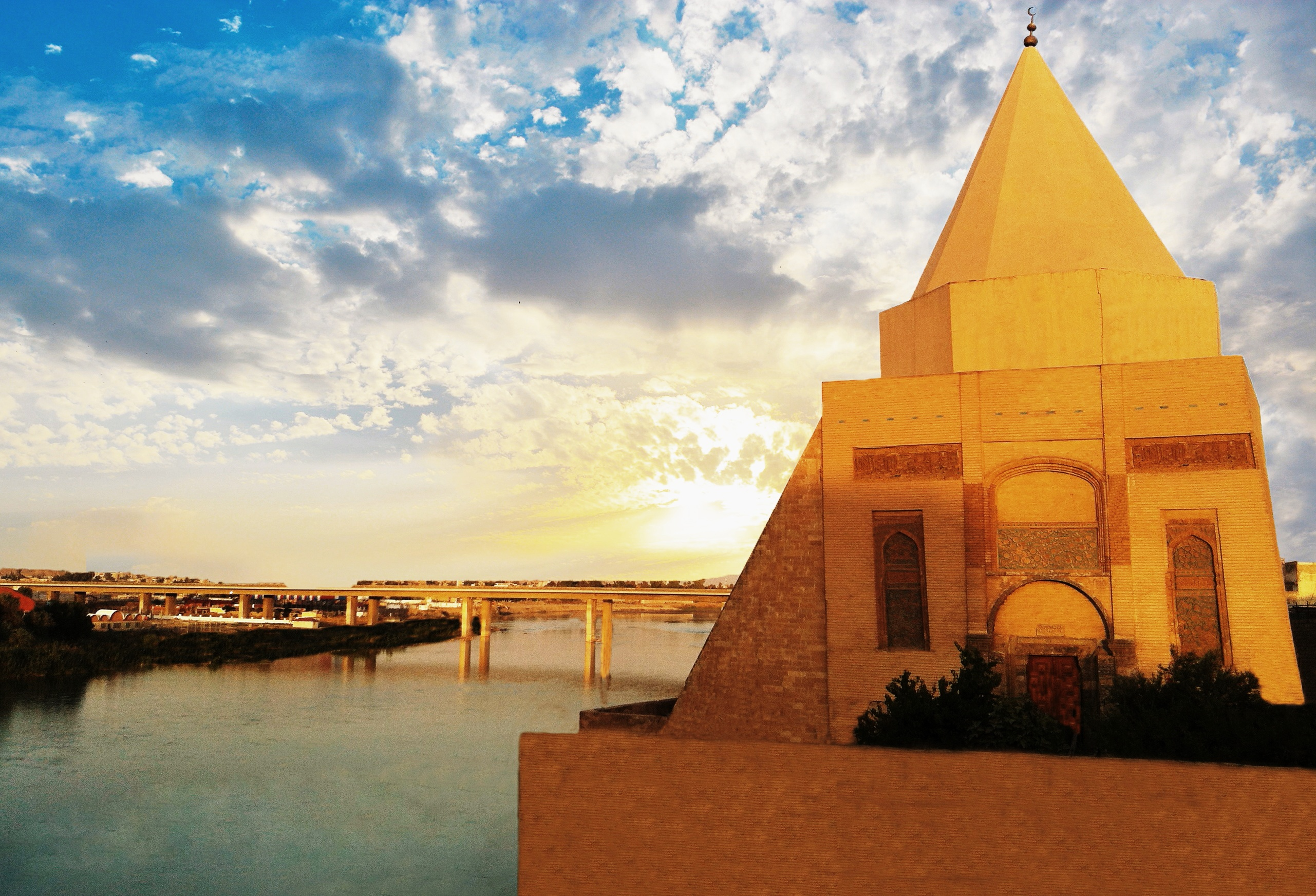 The shrine of Imam Yahya Abu al-Qasim of religious monuments in the city of Mosul before explosion by Islamic State of Iraq and the Levant